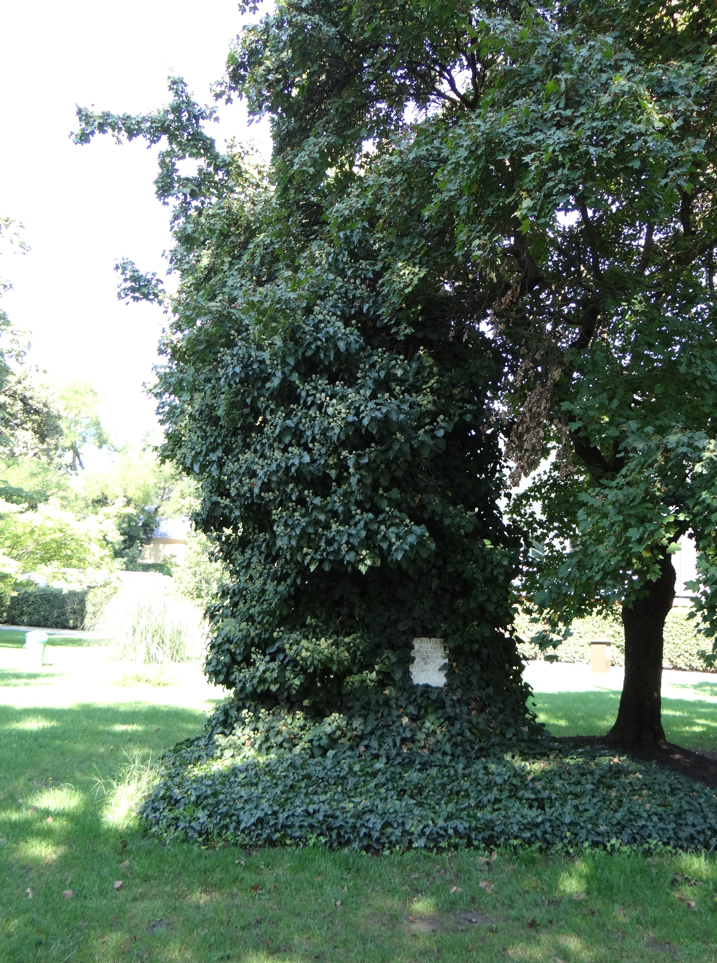 The Erkel-tree in the Park of Castle Thermal Bath in Gyula, Hungary.